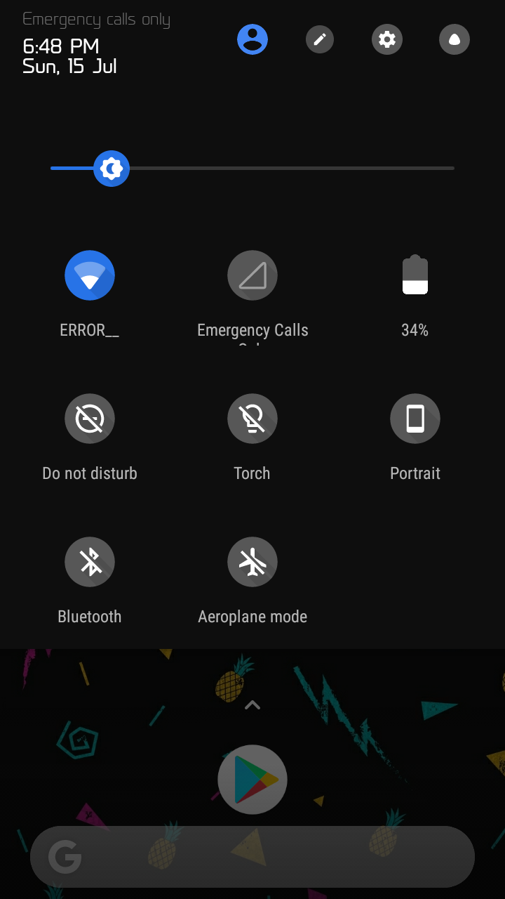 Custom ROM with theme-kritik bangera